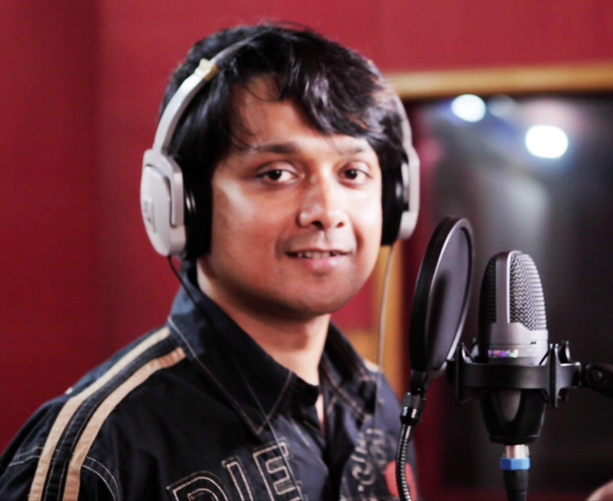 Actor Kapil Bora records his voice for the Axomiya language version of the TeachAIDS animation at Auditek Digital Recording Studio in Guwahati, Assam.